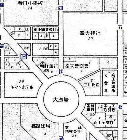 Mukden Map in 1935